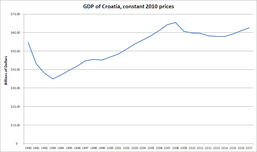 Gross domestic product (GDP) of Croatia at constant 2010 prices, according to UN and eurostat data